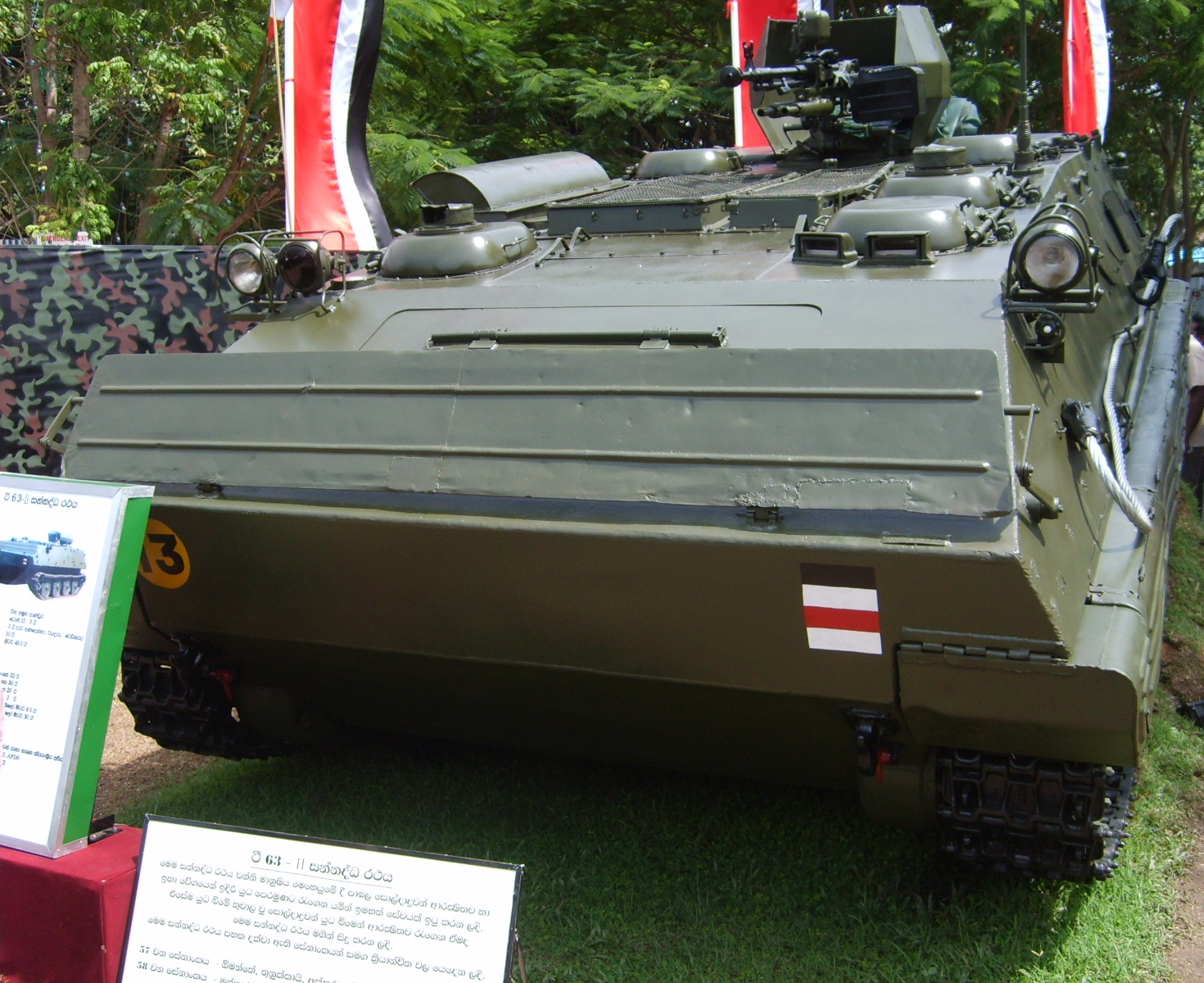 A Type 63 APC of the Sri Lanka Armoured Corps on display at the Army 60th Anniversary Exhibition